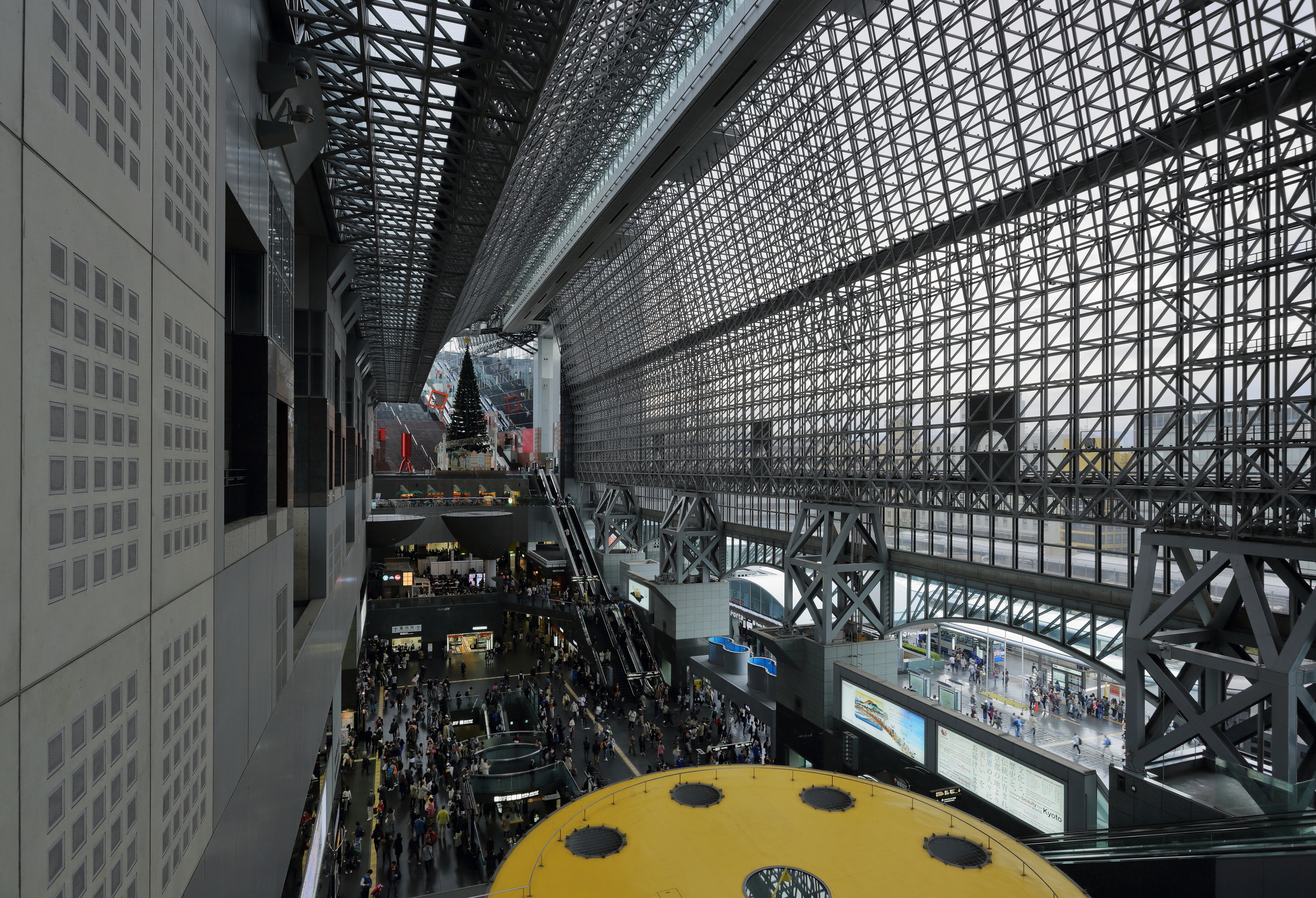 Kyōto Station, built in 1997, as seen from the eastern side of the main hall.